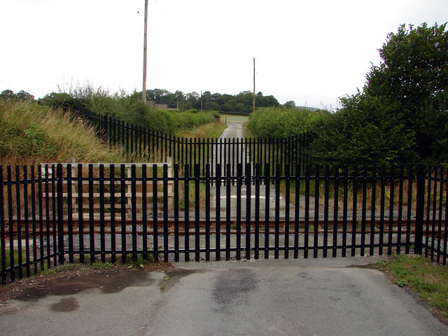 Road Closed, near to Llanbrynmair, Powys, Great Britain. There was a level crossing at this point until recently. After several serious accidents on Cambrian Railway level crossings, they are being removed whereverer possible. In this case, the lane that allows access to two farms has been re-routed via a nearby under-bridge and a new river bridge.